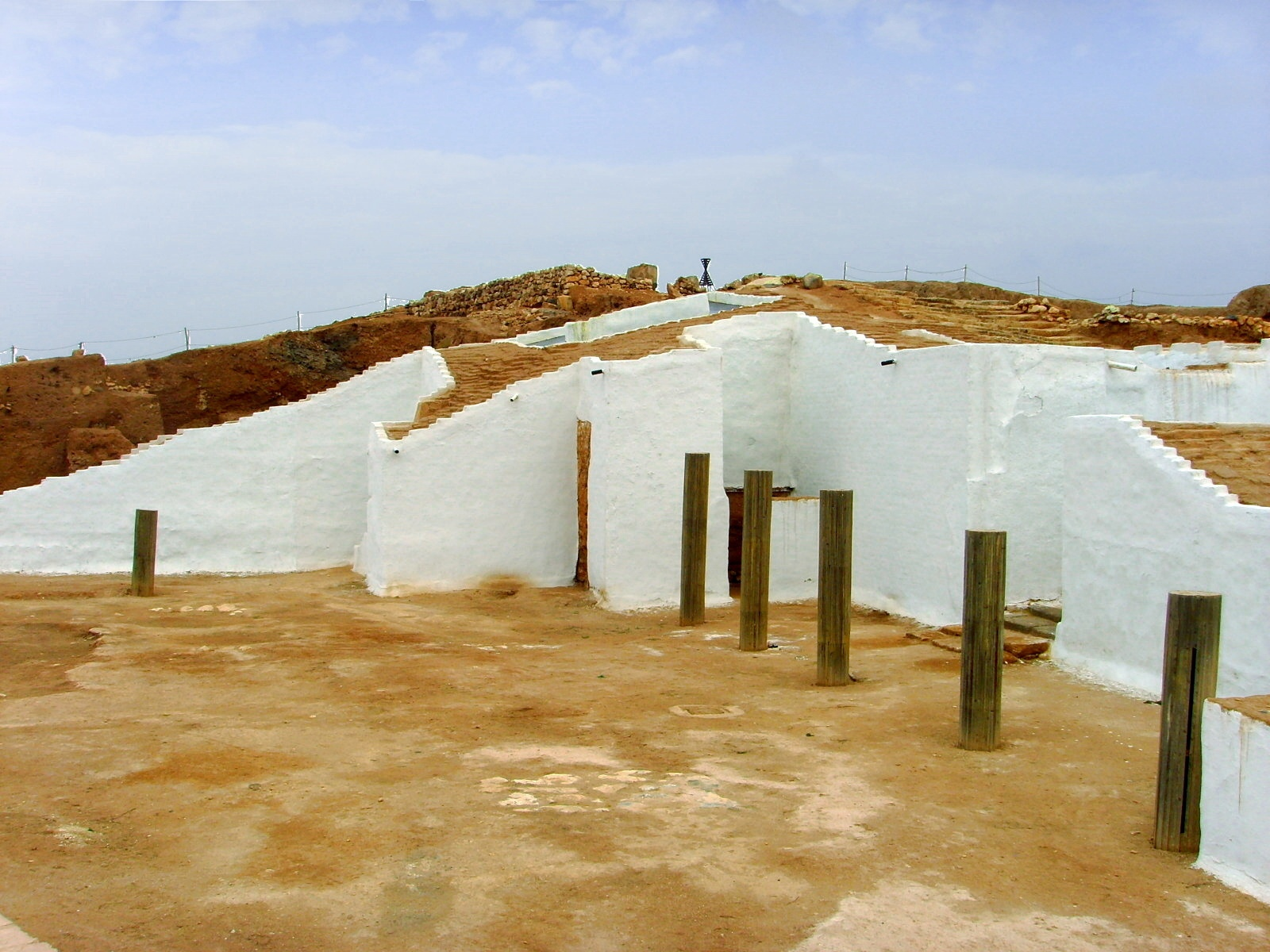 Ebla/Syria